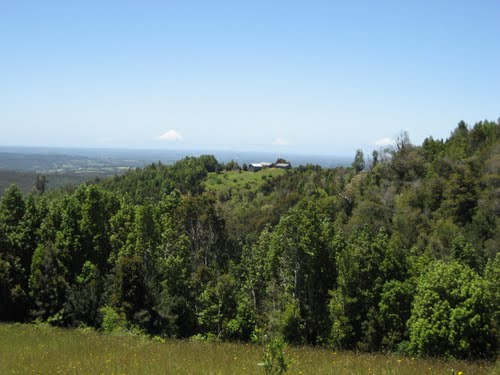 Los Vertientes Private Nature Reserve - Valdivian temperate rainforest - Los Lagos Region, southern Chile.